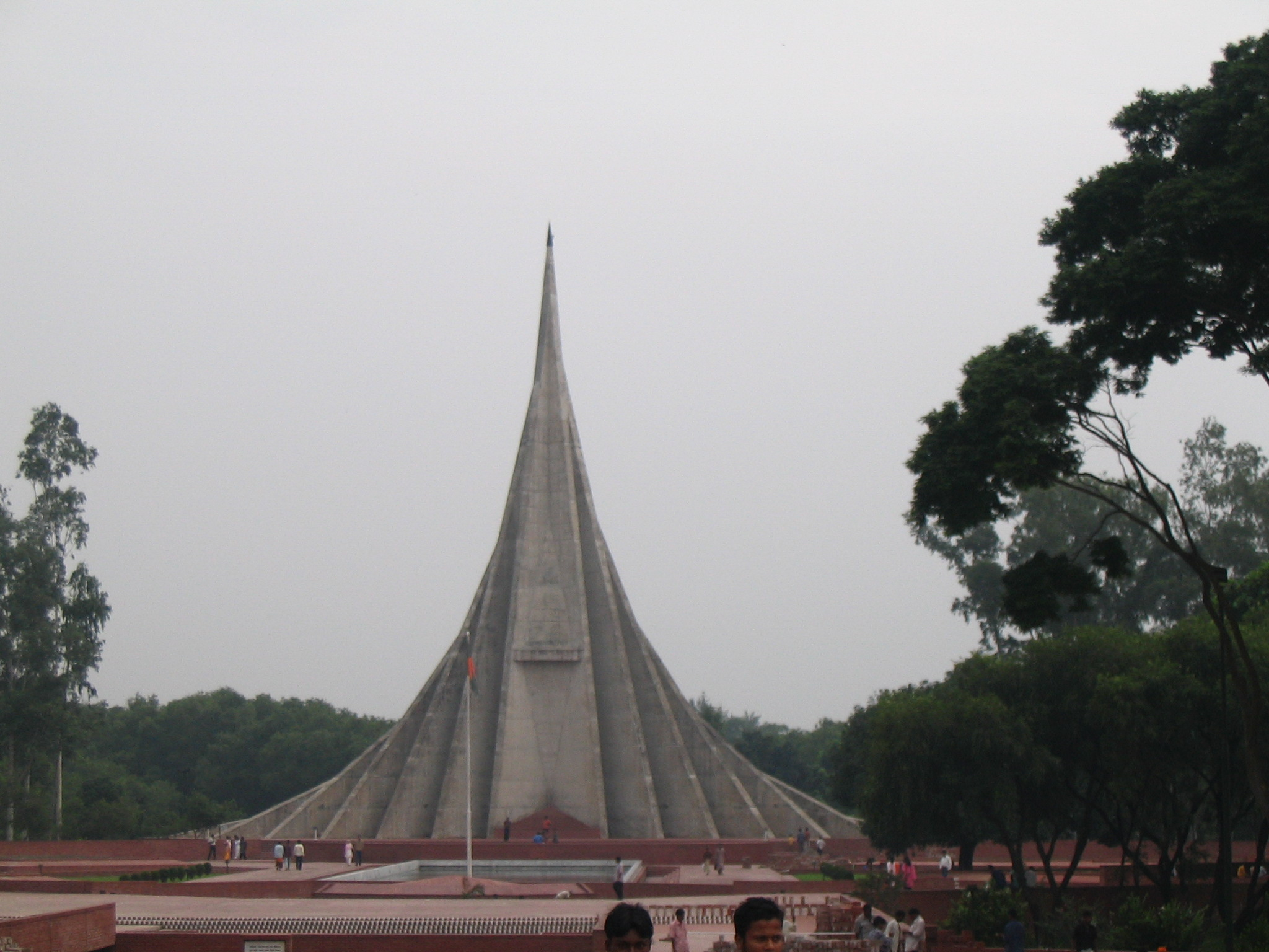 The Jatiyo Smriti Soudho — concrete modernist monument and memorial gardens, at Savar near Dakar in central Bangladesh. It is the symbol of the valour and the sacrifice of those killed in the Bangladesh Liberation War of 1971.